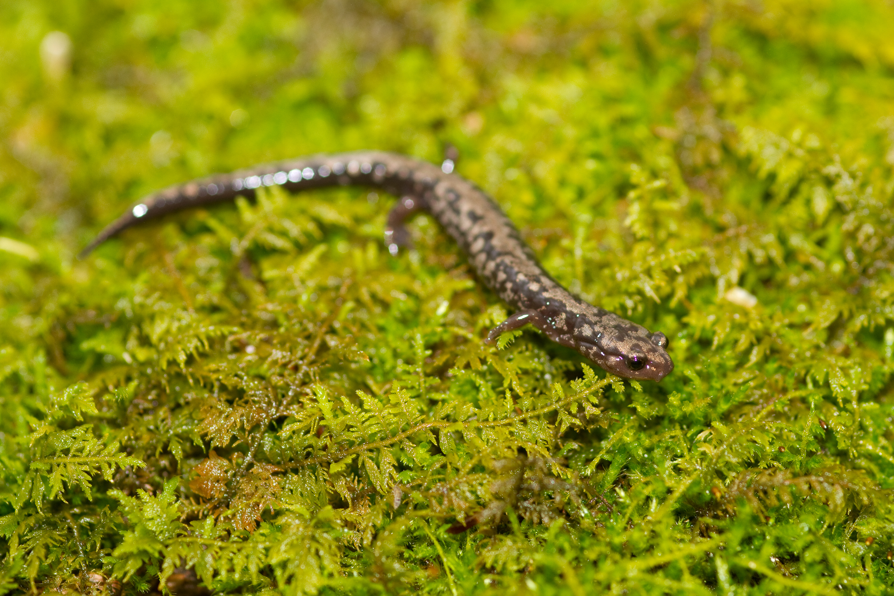 Weller's Salamander